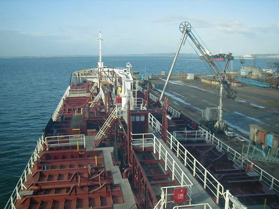 The main deck of the Chassiron while unloading through Chicksan arms.